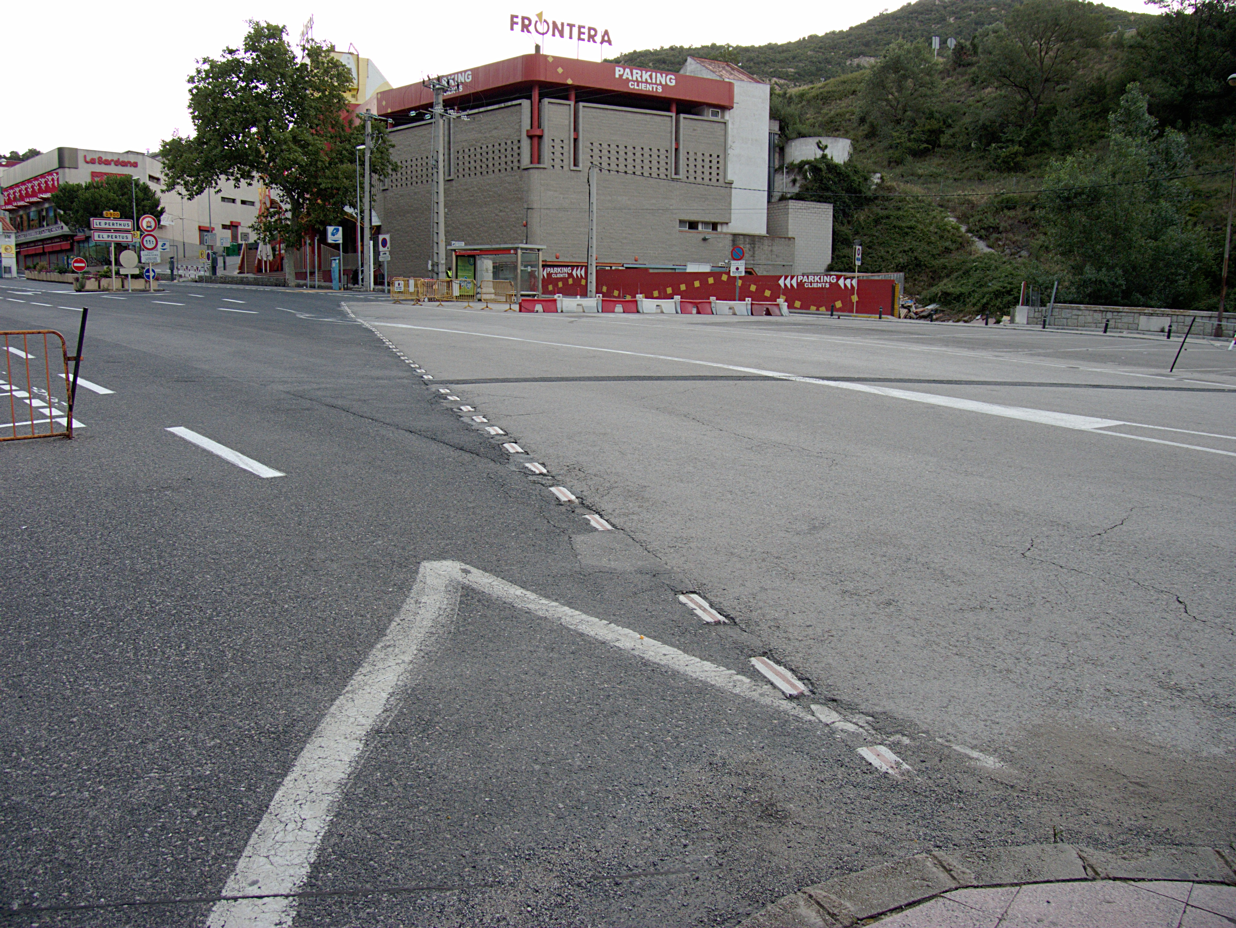 French-Spanish boundary marked on the road, with Le Perthus (Pyrénées-Orientales, Languedoc-Roussillon, France) at left and La Junquera (Alt Empordà, Girona, Catalunya, Espanya) at right. Boundary marker 574 is on the road at the far end of the broken line on the road while boundary pillar 575 is at the back of the bus shelter.